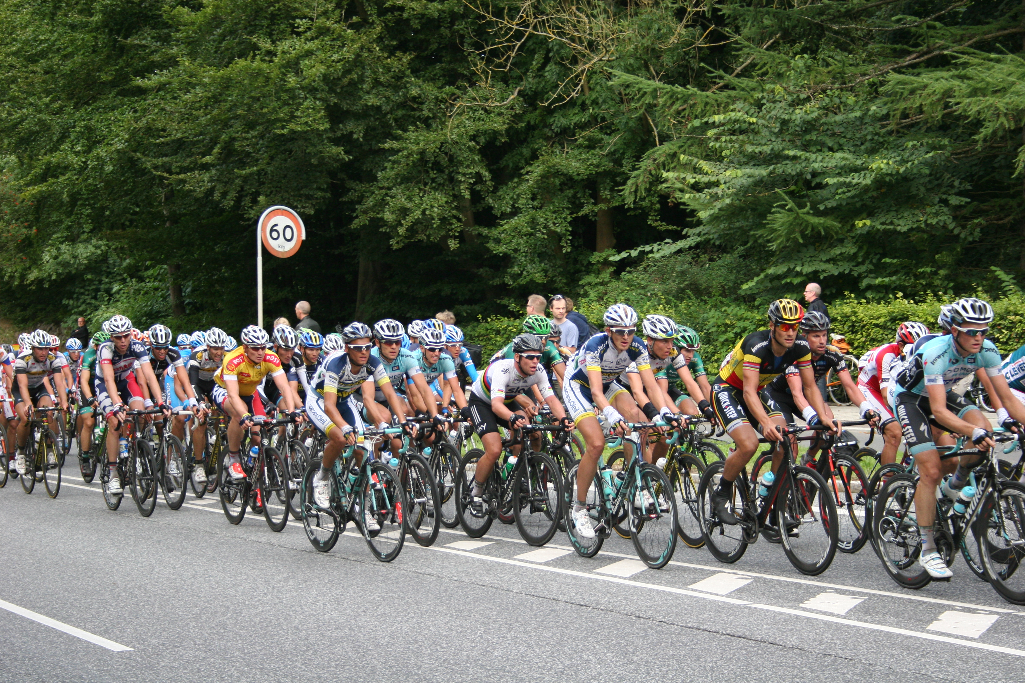 Canvendish, Boonen and Greipel at Post Danmark Rundt 2012 - stage 2, in Aarhus